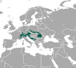 Alpine Shrew (Sorex alpinus) range